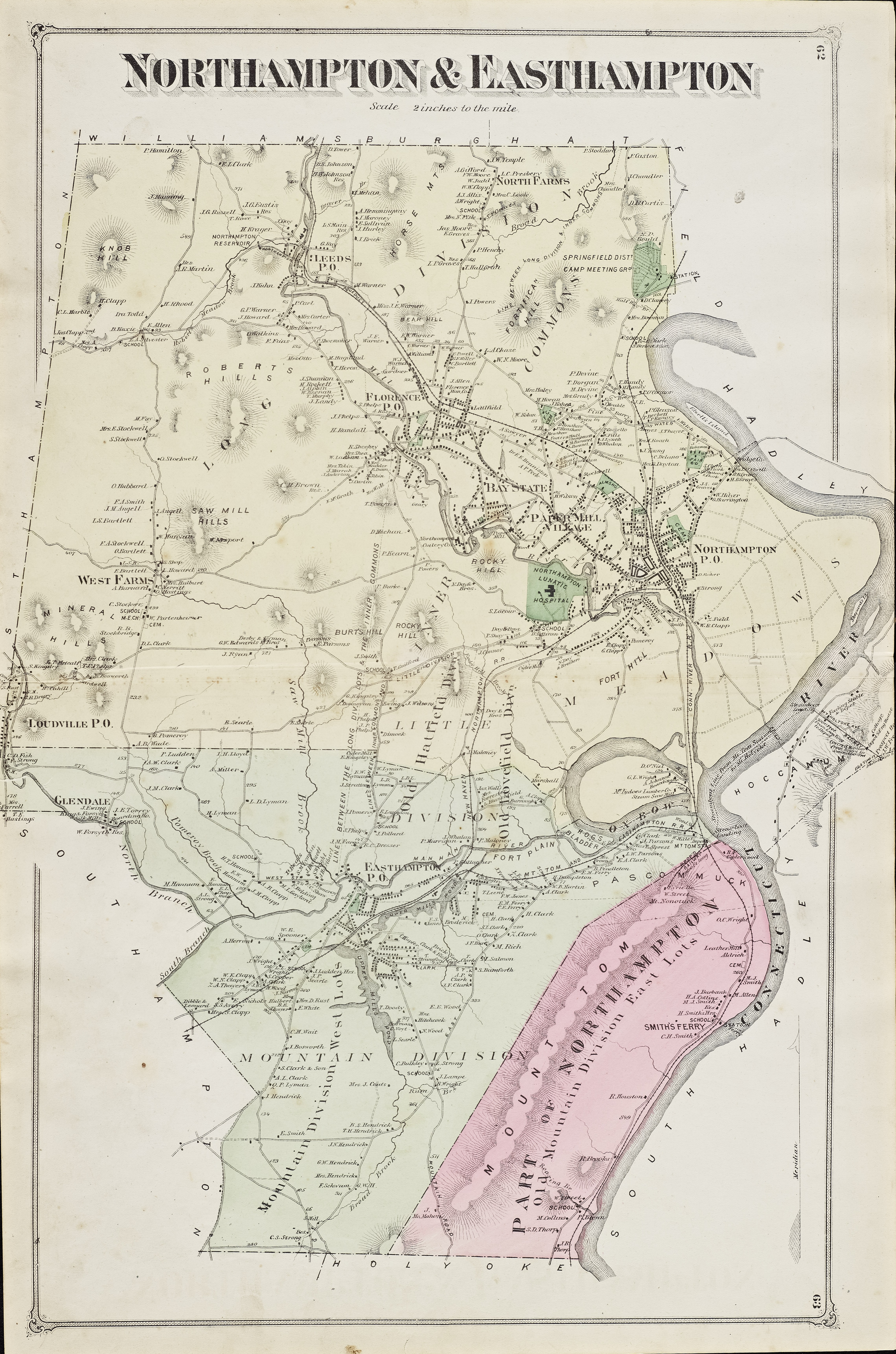 Map of Northampton and Easthampton, Massachusetts featuring the Smith's Ferry annex that would subsequently be granted to Holyoke, Massachusetts in 1909.